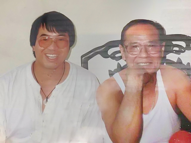 Felix Leong with Sum Nung in 1984